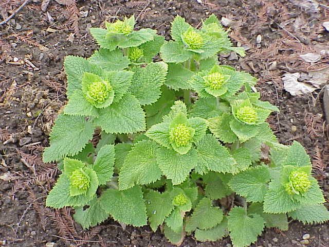 Species: Scrophularia vernalis Family: Scrophulariaceae Image No. 2